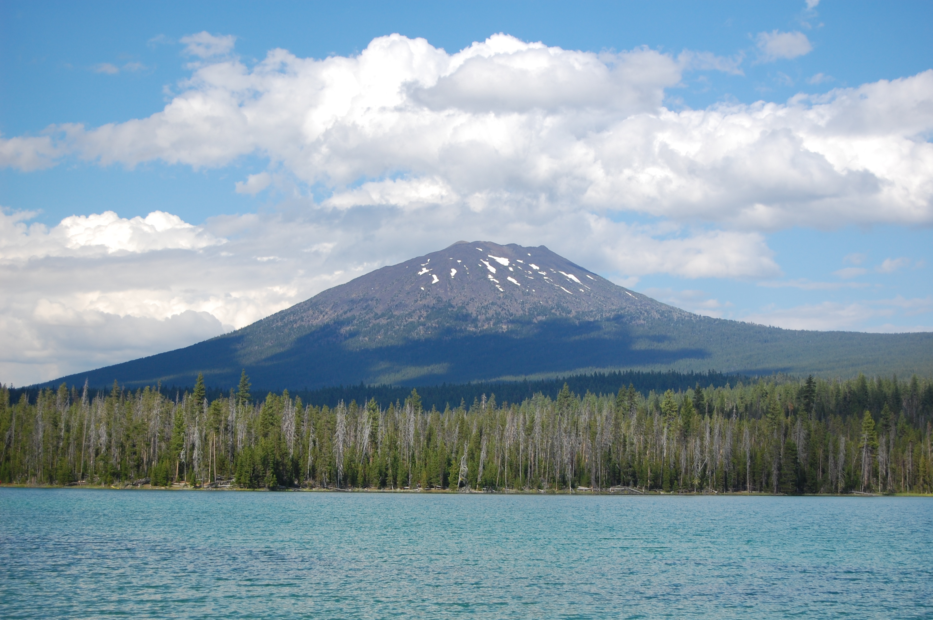 Mount Bachelor, seen from Little Lava Lake, Oregon